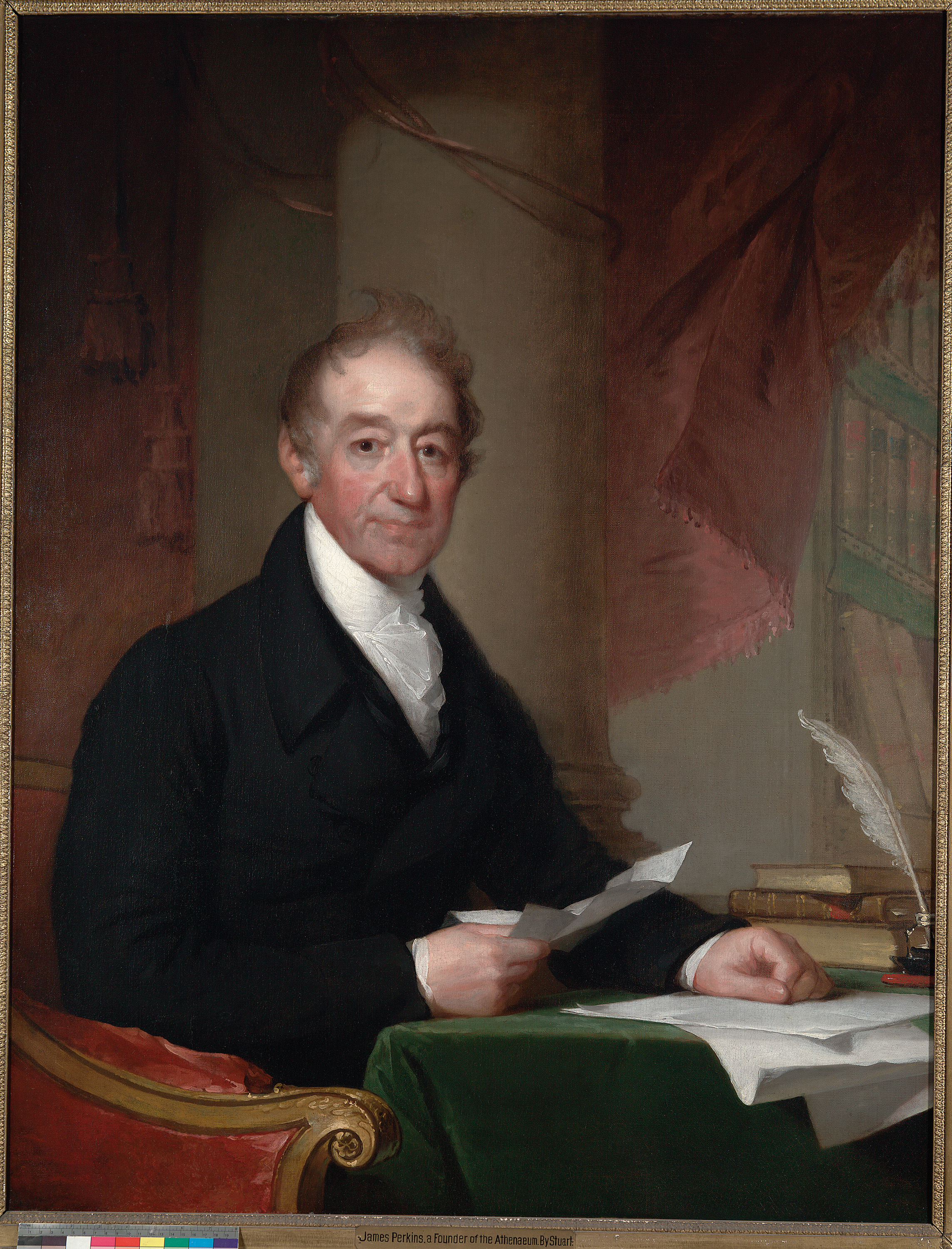 Artist: Gilbert Stuart (American, 1755 - 1828) Date: [1822] Medium: Oil on canvas Dimensions: 111.3 x 86.5 cm